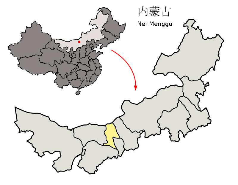 Location of Baotou Prefecture (yellow) within Inner Mongolia Autonomous Region of China Map drawn in november 2007 using various sources, mainly : Inner Mongolia Autonomous Region administrative regions GIS data: 1:1M, County level, 1990 Inner Mongolia Counties map from